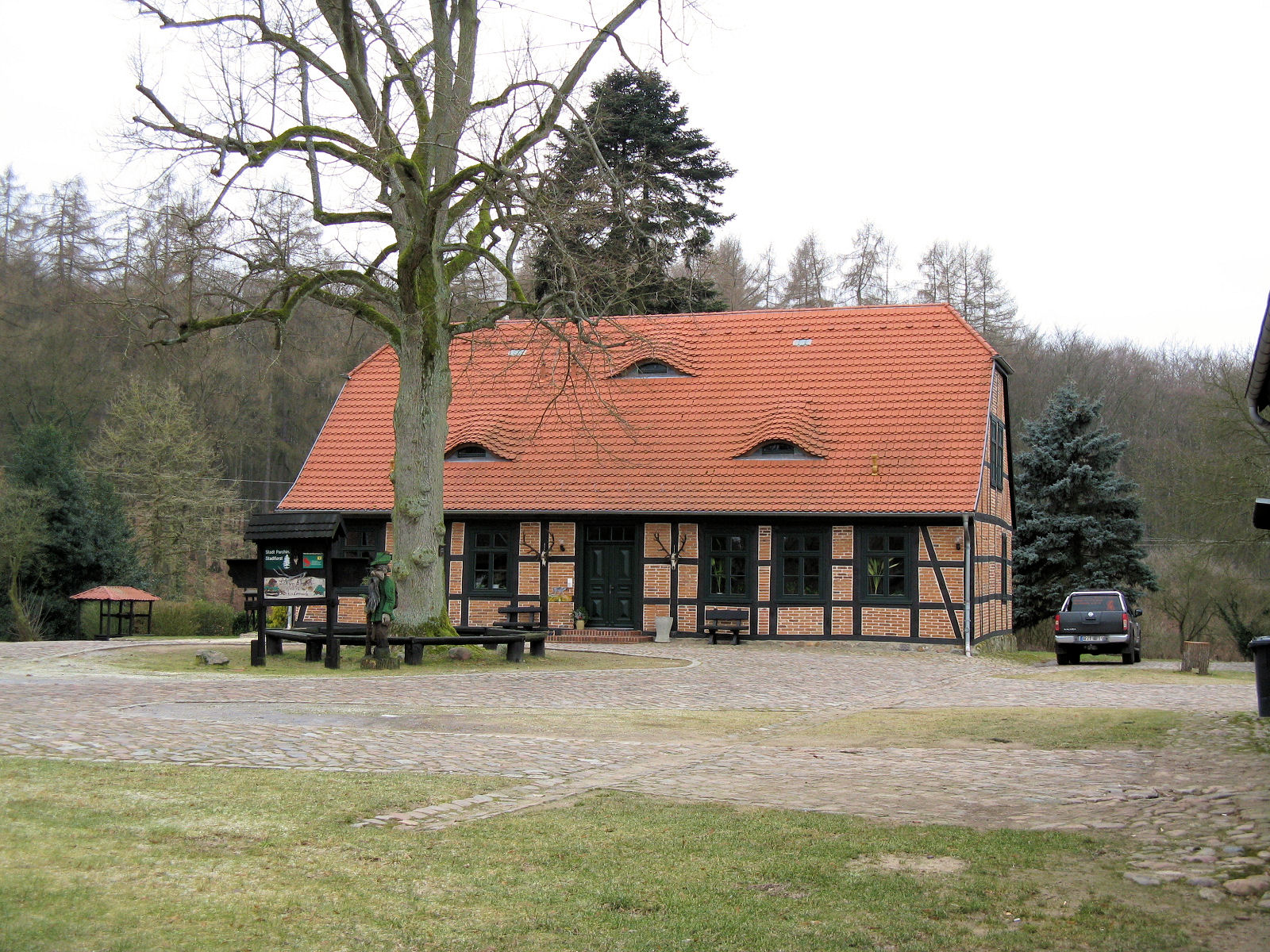 House of the forest administration in Kiekindemark, Parchim, Mecklenburg-Vorpommern, Germany